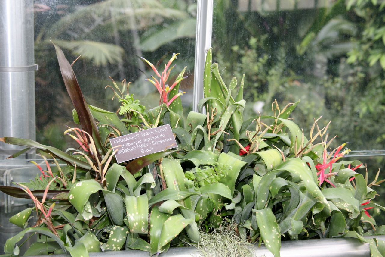 Billbergia leptopoda Member of the Bromeliad family - Bromeliaceae. United States Botanic Garden